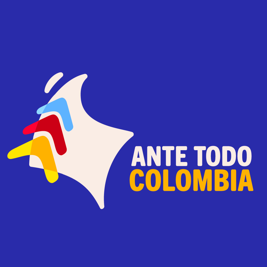 Logo Ante Todo Colombia's logo.